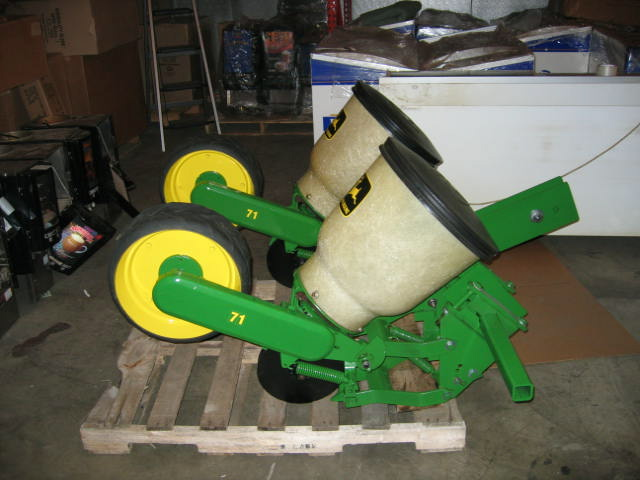 A 2 row planting unit featuring John Deere "71 Flexi" planting heads with the optional large capacity fiberglass seed hoppers. Units this size are often cut down and refurbished from older large 8, 10 or 12 row planters used behind agricultural tractors. Hobby farmers favor small planters for their smaller gardens. These are also often used by hunters or hunt clubs to plant feed plots for animals.